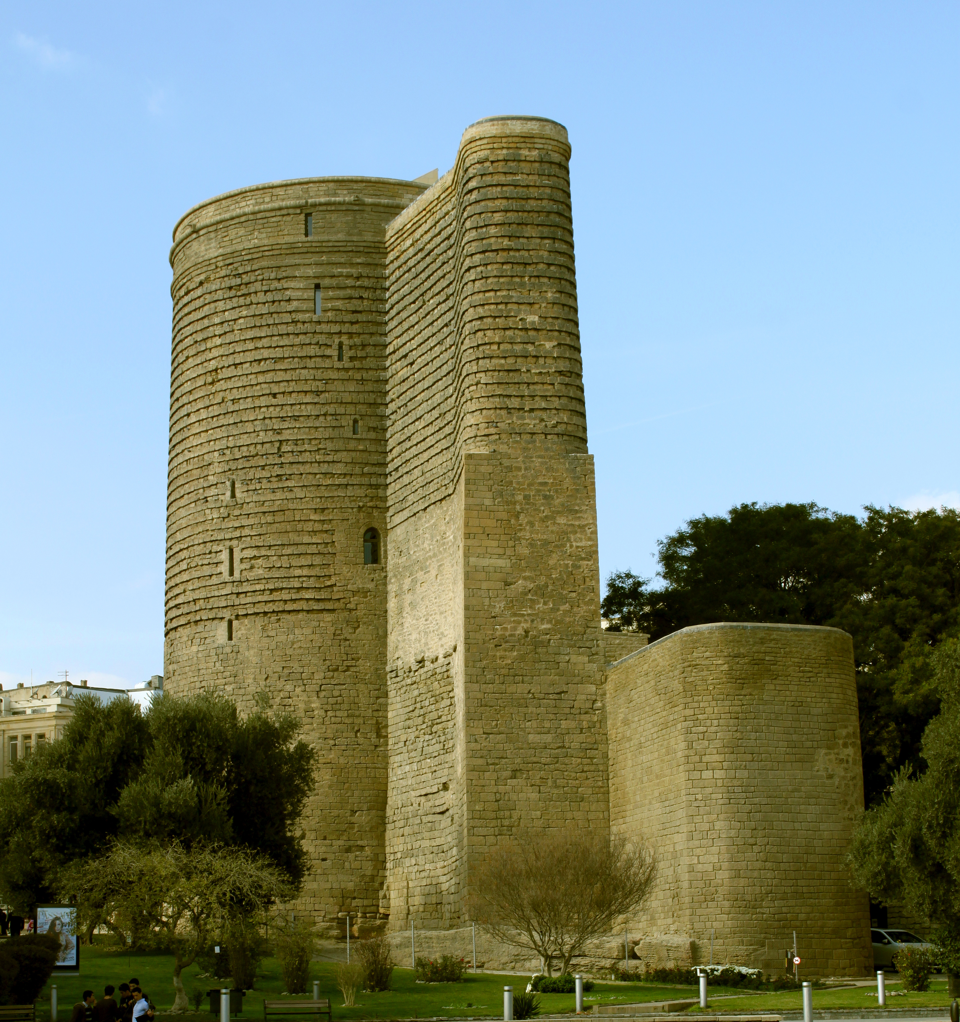 Maidens Tower 2013